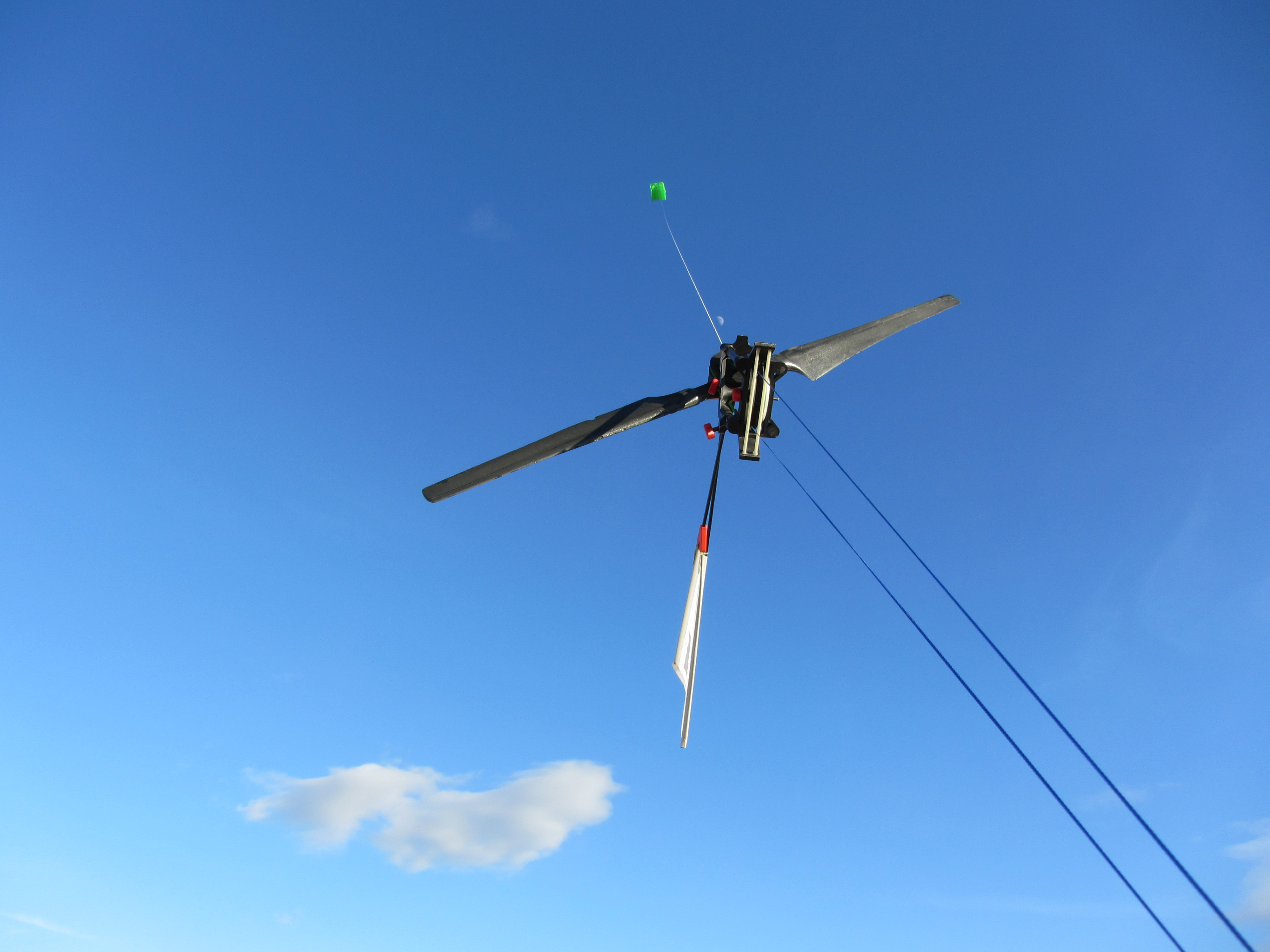 Kiwee One, an airborne wind turbine designed by Kitewinder